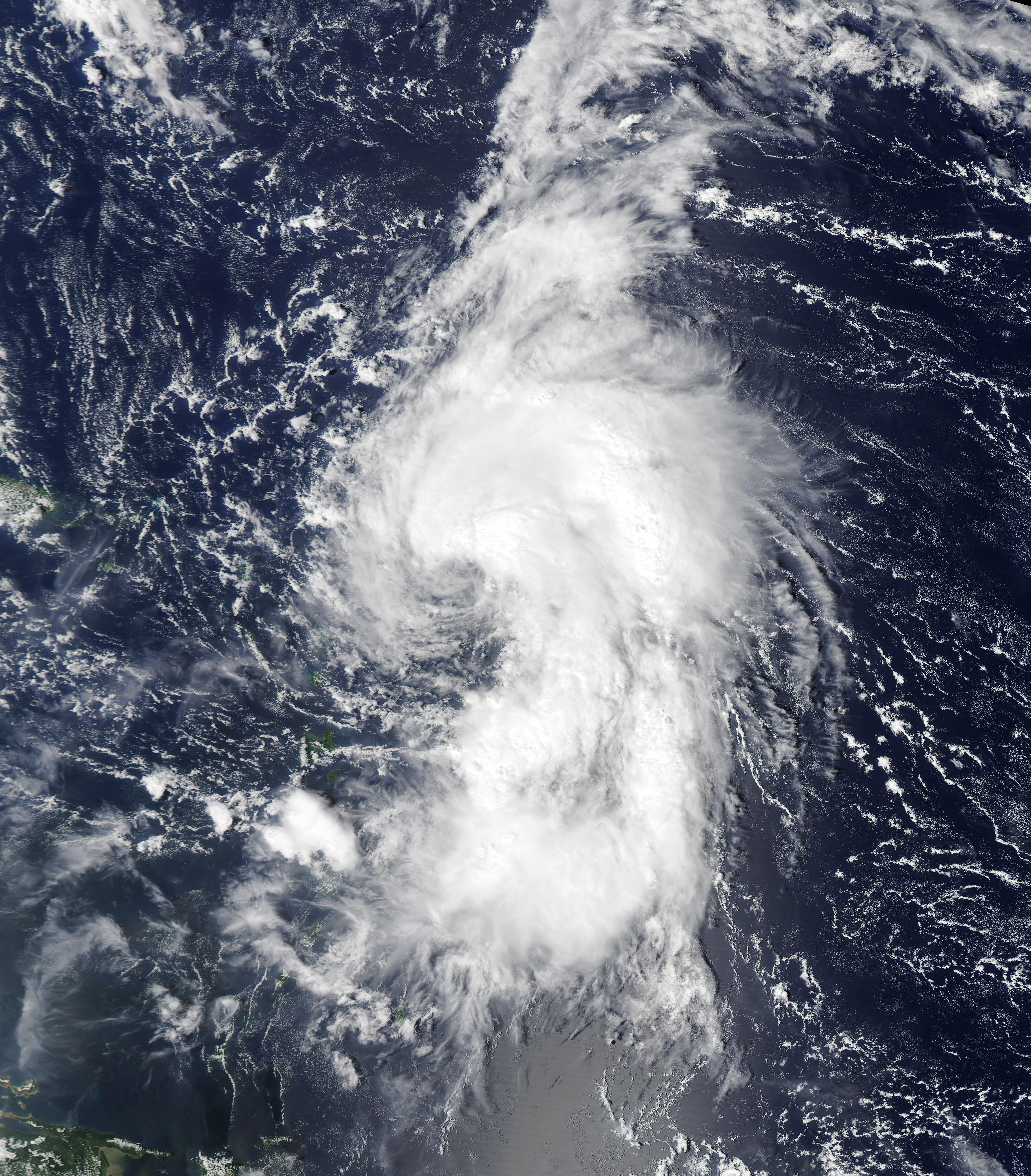 Tropical Storm Ophelia on September 28, 2011